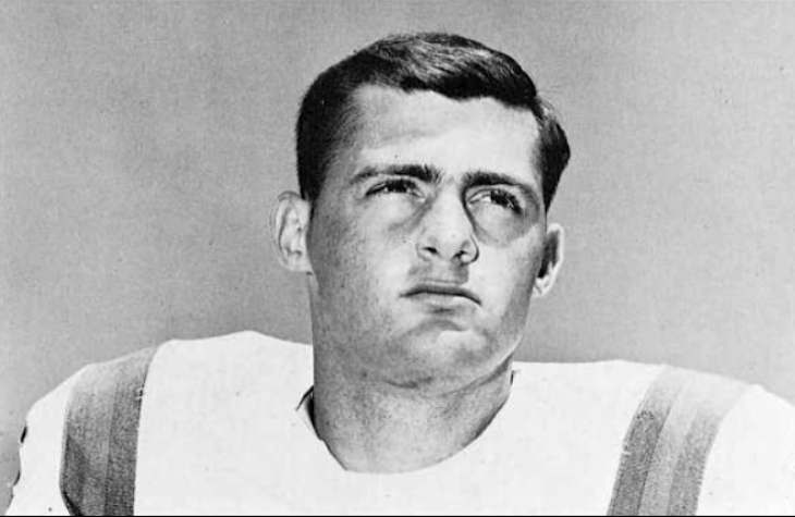 Photograph of Bruce Bennett